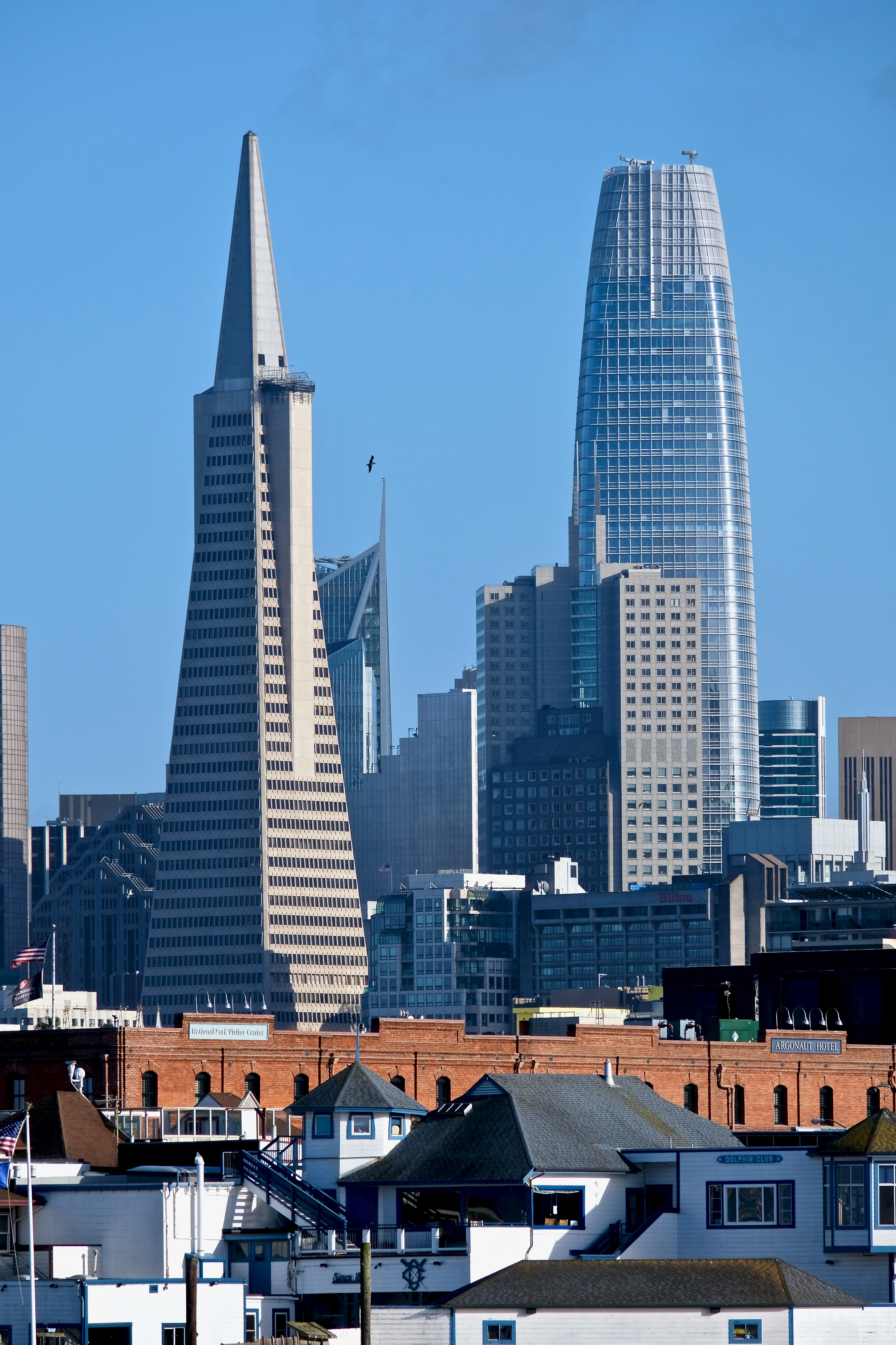 View of Transamerica Pyramid and Salesforce Tower from Fort Mason in San Francisco, California